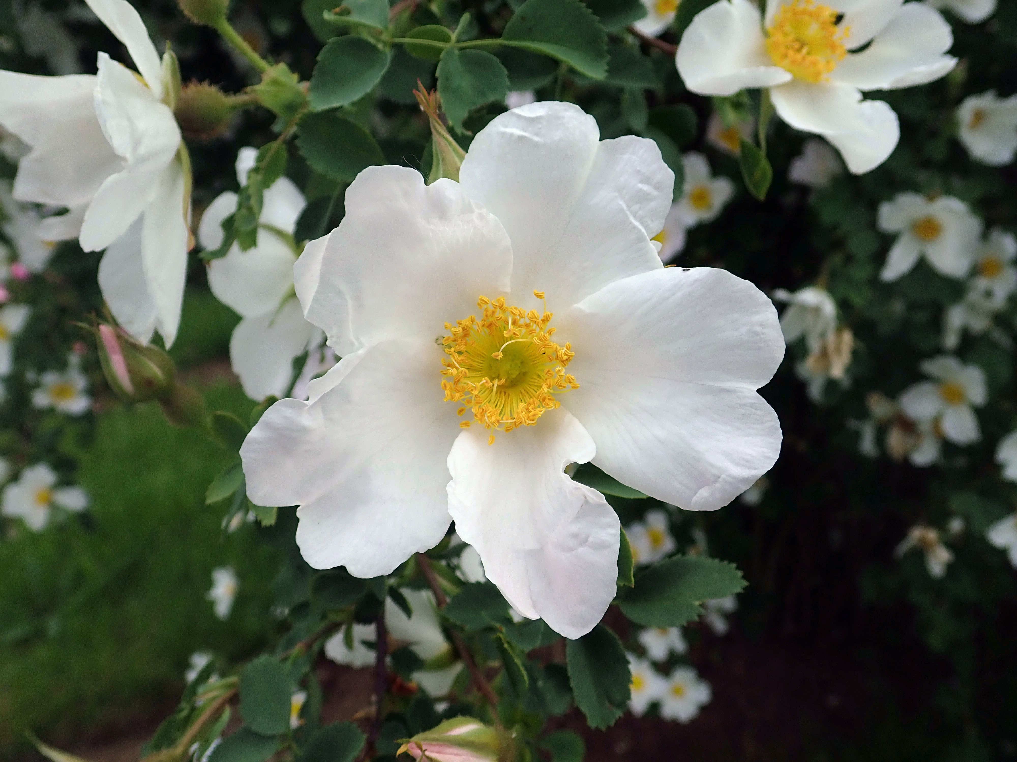 Rosa fedtschenkoana Reg., Europa-Rosarium Sangerhausen.